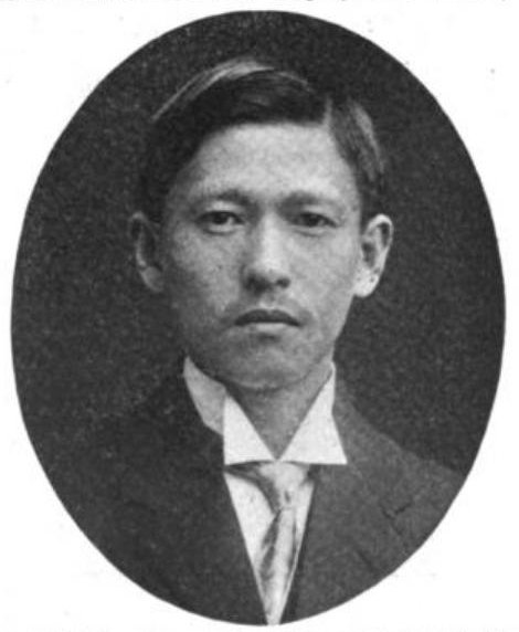 Original caption: "Tokichi Tanaka, resident Japanese consul, Seattle". I believe this is the same Tokichi Tanaka who was later Japan's first ambassador to the Soviet Union.